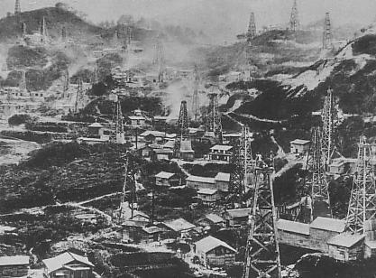 Higashiyama Oil field in the Meiji era